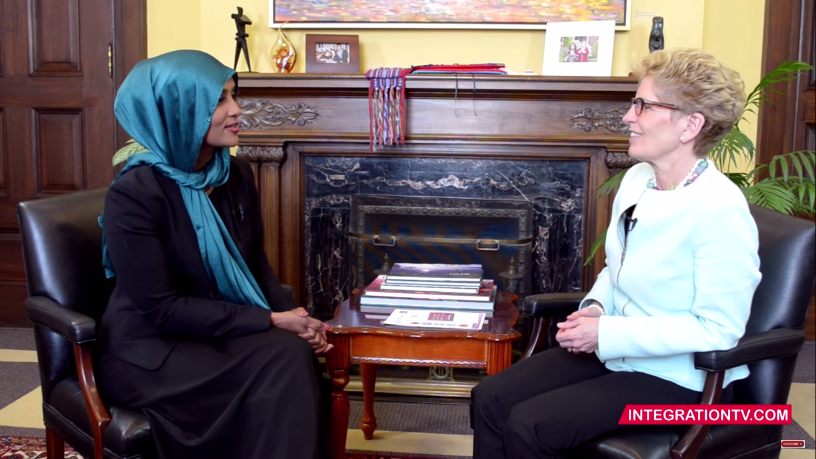 Integration Television Host, Hodan Nalayeh sits down with Premier Kathleen Wynne in an interview